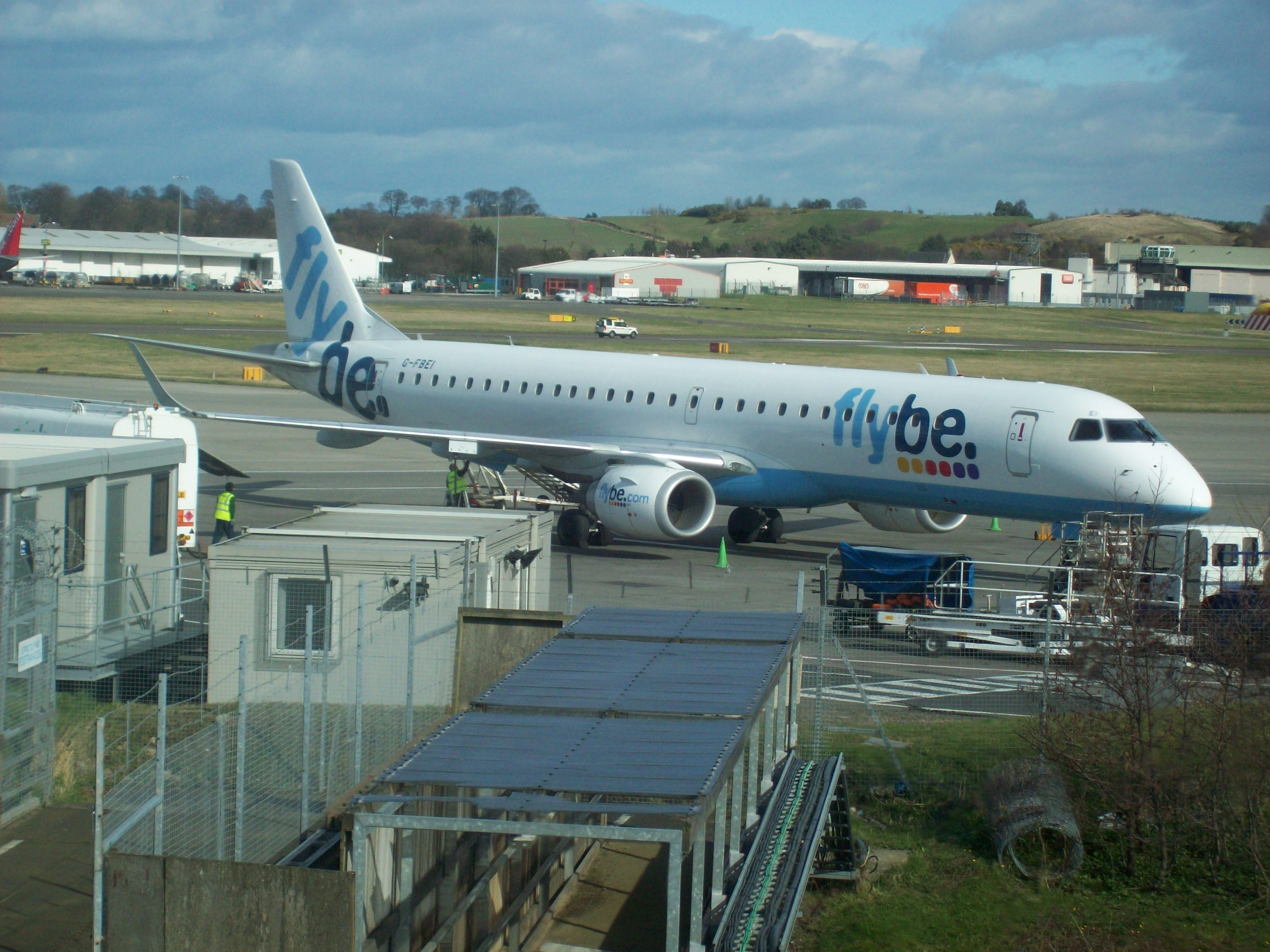 Flybe Embraer 195 aircraft at Edinburgh Airport